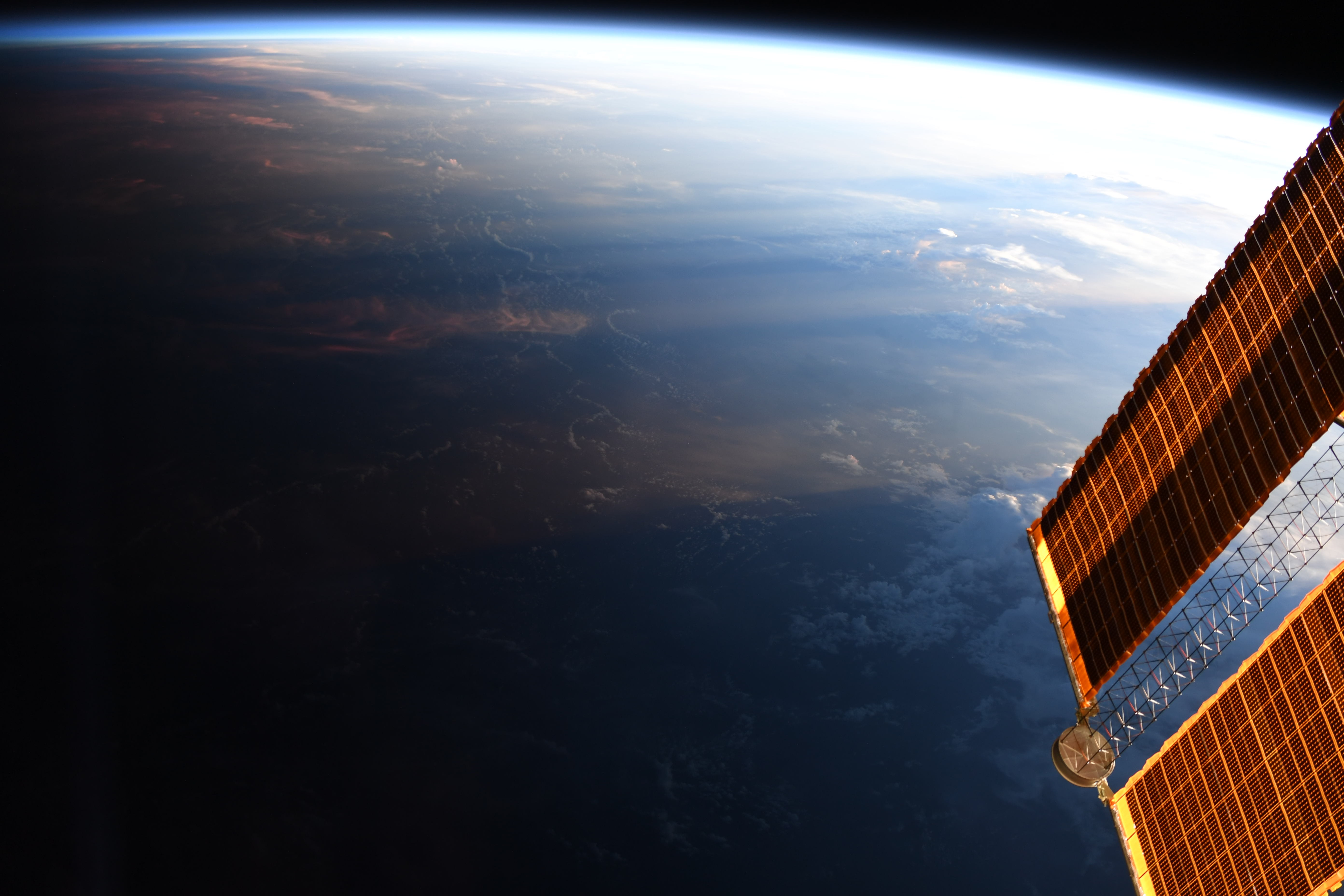 NASA astronaut Christina Hammock Koch @AstroChristina posted this image of Earth taken from aboard the International Space Station. She said: "A couple times a year, theInternational Space Stationorbit happens to align over the day/night shadow line on Earth. We are continuously in sunlight, never passing into Earth’s shadow from the Sun, and the Earth below us is always in dawn or dusk. Beautiful time to cloud watch.